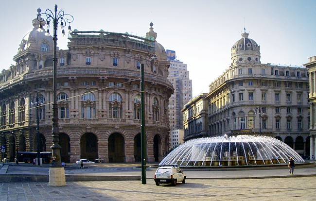 Genova: Piazza De Ferrari picture taken by user:Idéfix, august 2003